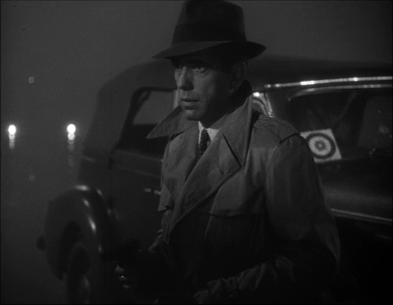 This screenshot shows Humphrey Bogart holding a gun in the airport scene.